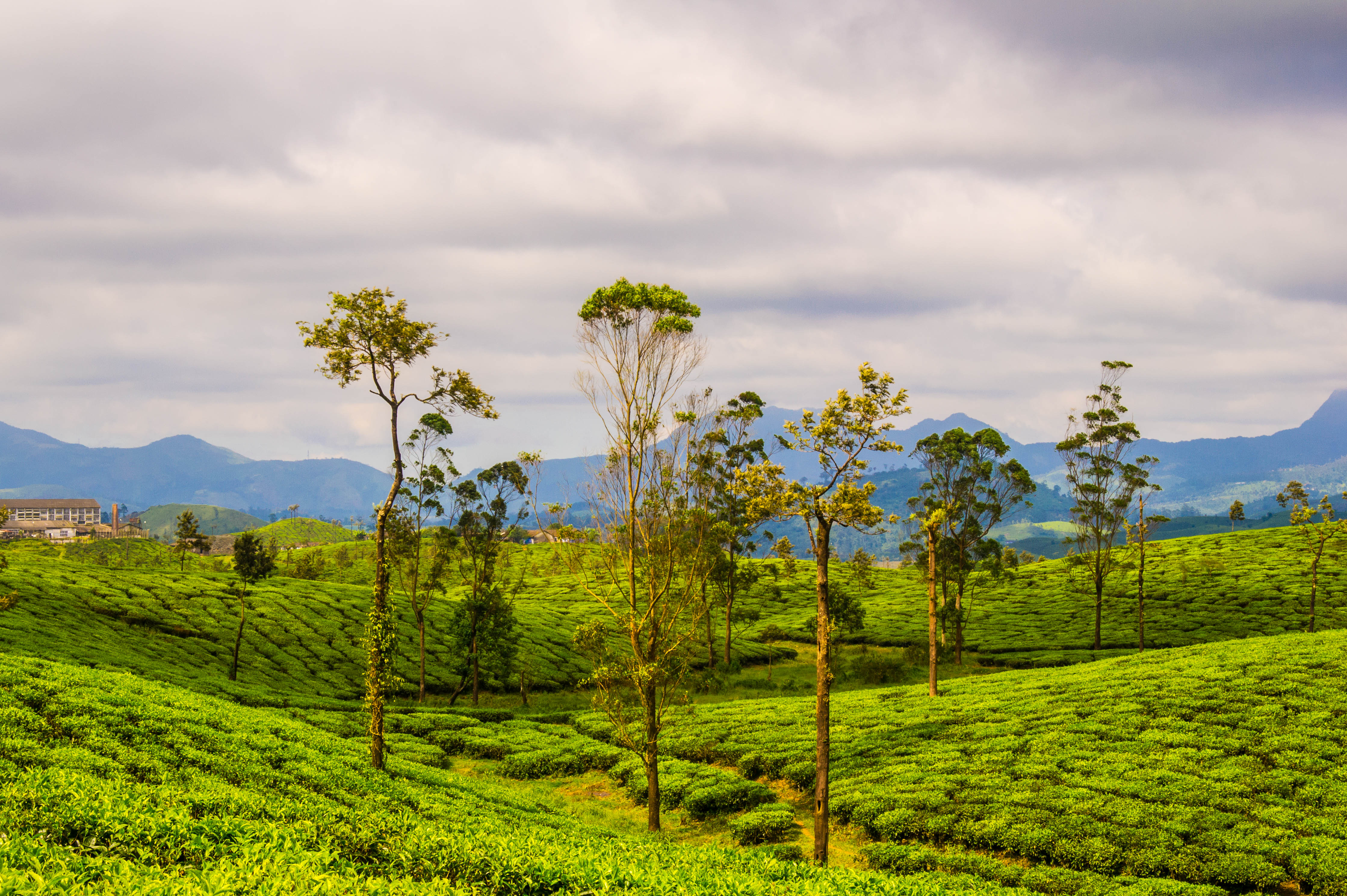 Scenic view of tea plantations near Nallamudi view point in Valparai, Coimbatore district, Tamil Nadu.